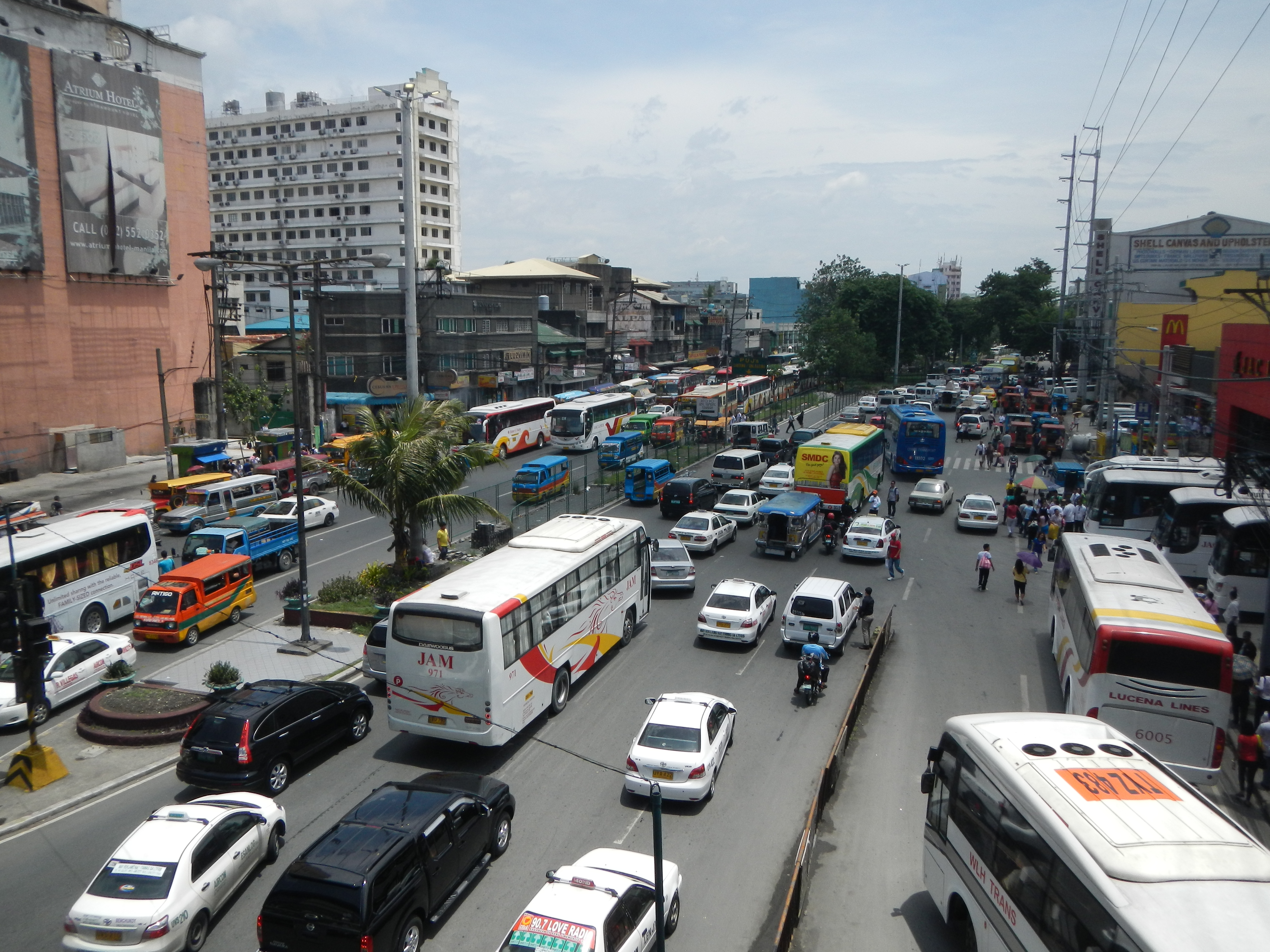 View from and around Gil Puyat LRT Station[1]Gil Puyat Avenue (Buendia) Pasay[2]